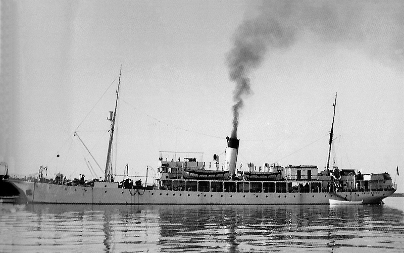 The french cableship "Emile Baudot" in 1917.